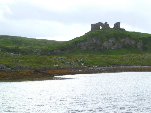 Achadun Castle from the anchorage in Achadun Bay